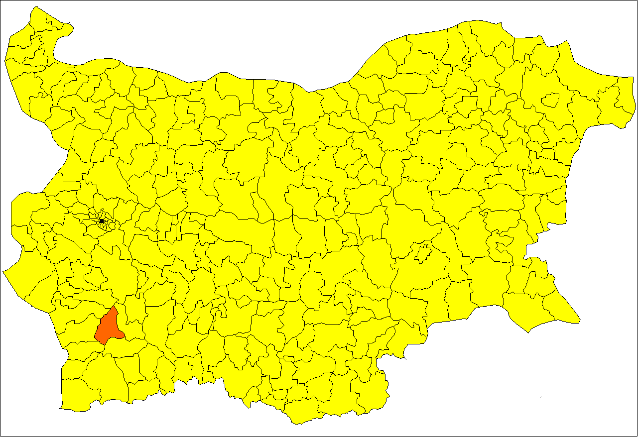 Bansko Municipality.